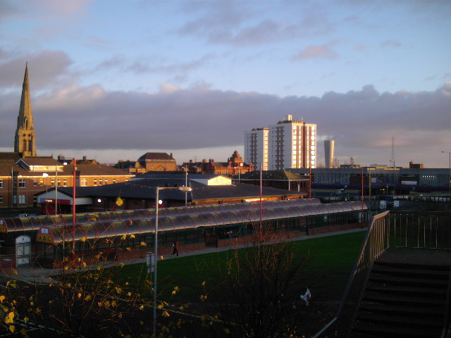 Jarrow Centre. Bus station in foreground, Viking Shopping centre to the right, Tyne Tunnel ventilation pipe in background.